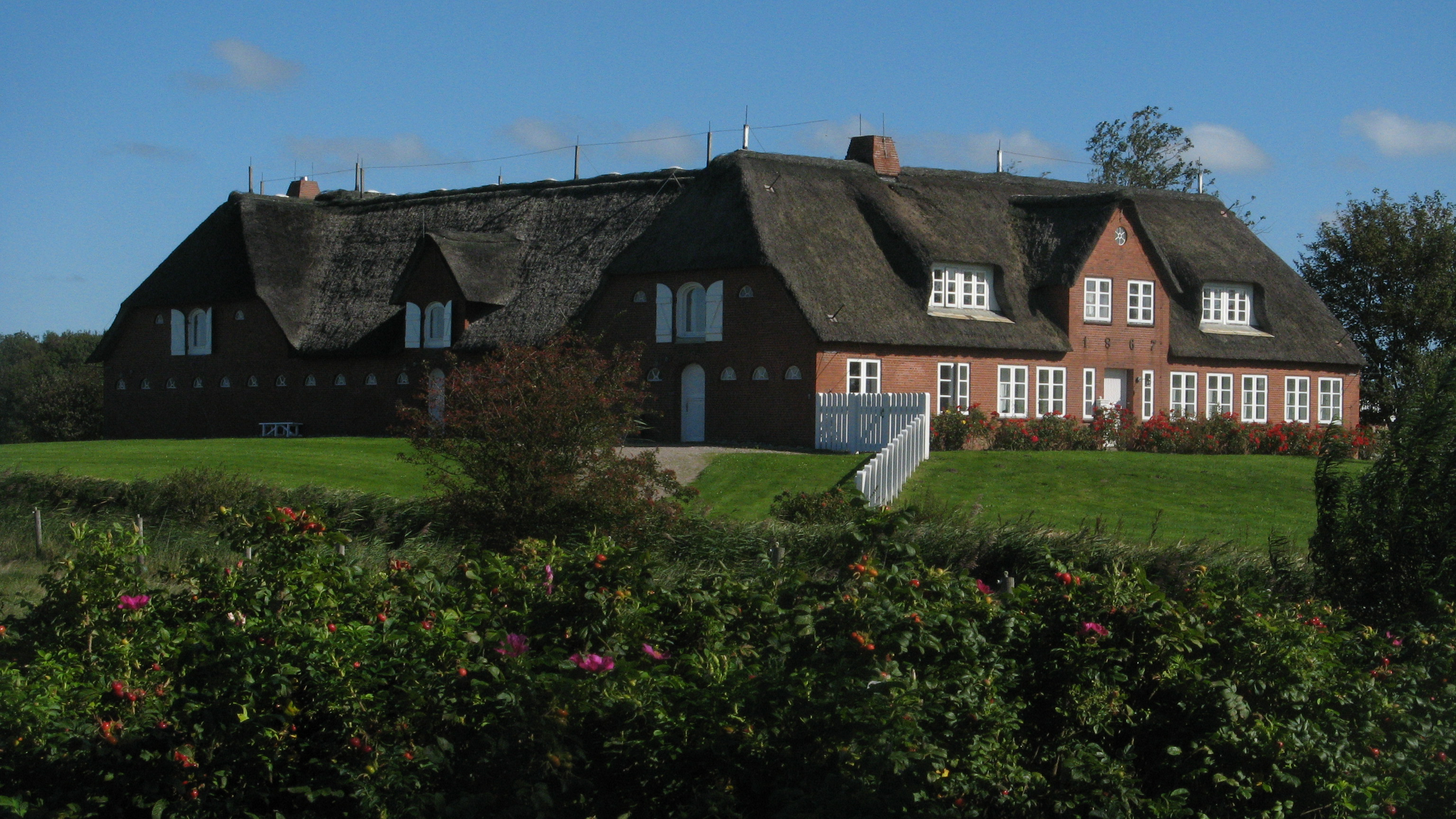 Vierseithof, former house of painter Emil Nolde in North Frisia